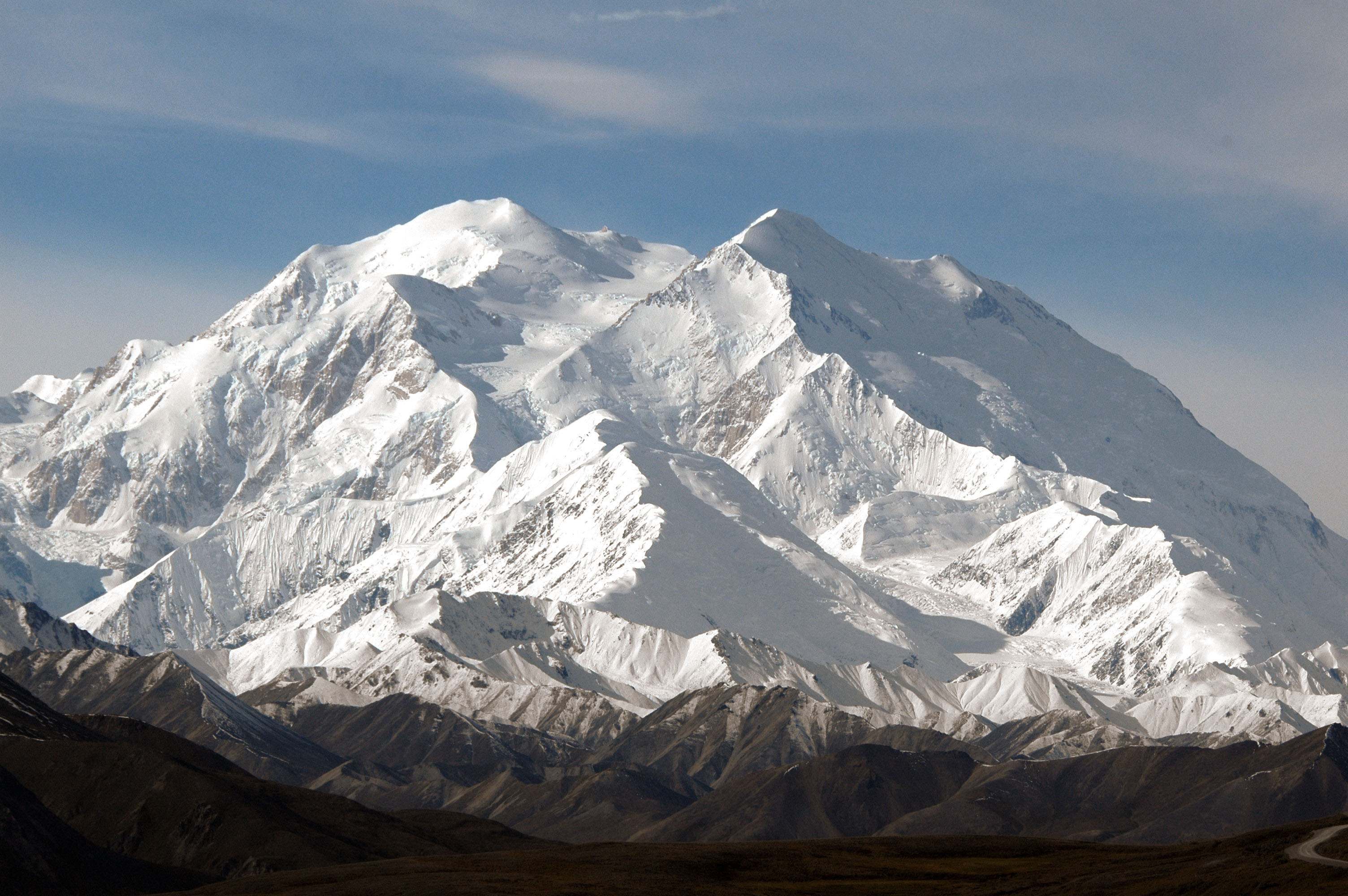 Mount Mc Kinley 6193 m (Denali = Indian for "the Great") from the Denali Visitors Center in August 2006 by my son Bas on his second trip to Alaska